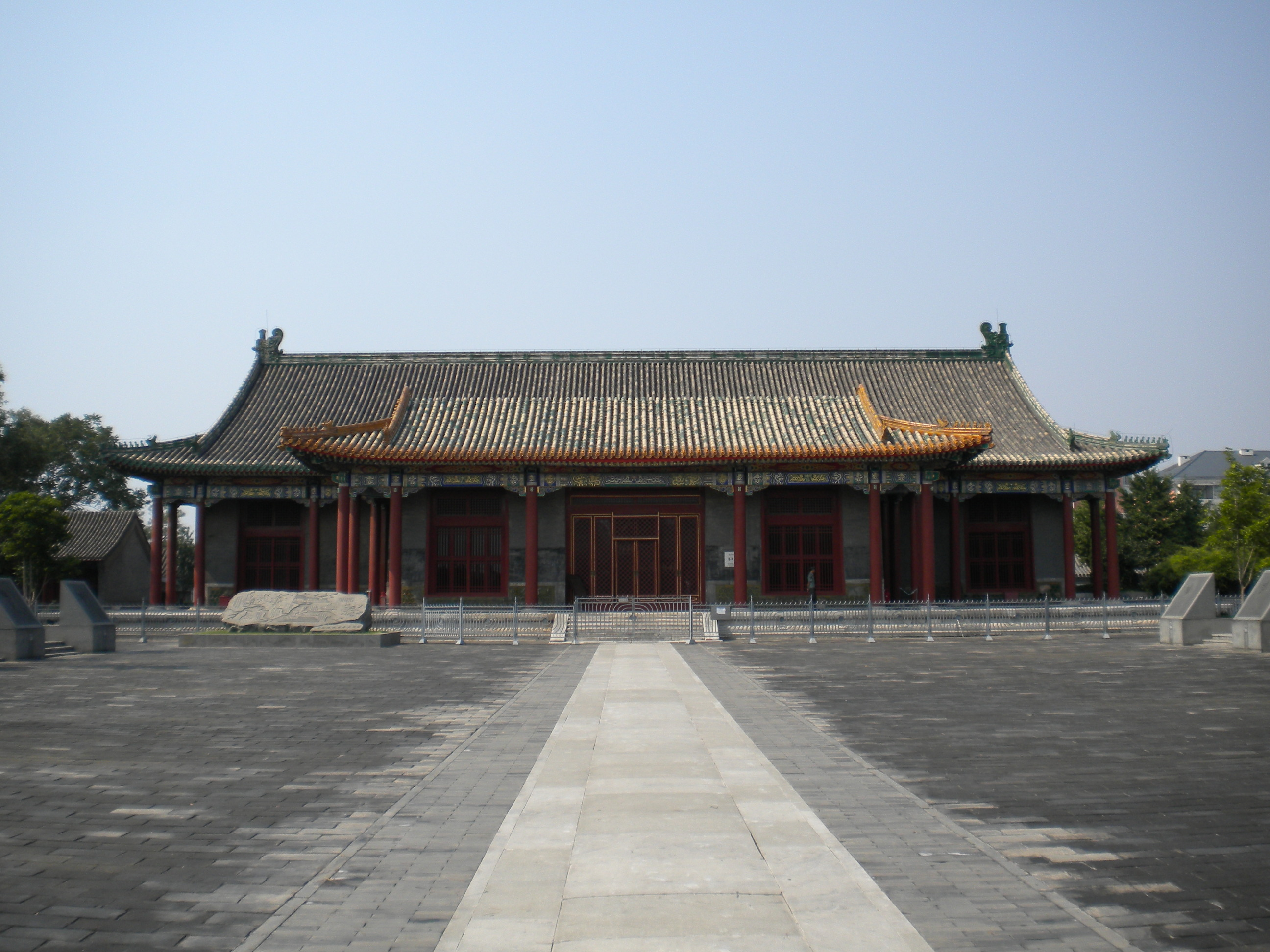 Pudu Temple, Beijing